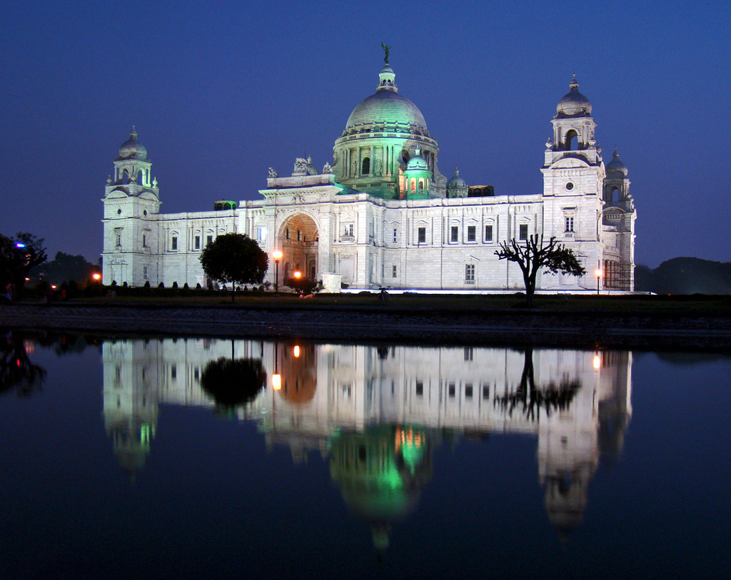 Victoria Memorial Hall, Kolkata, at dusk.